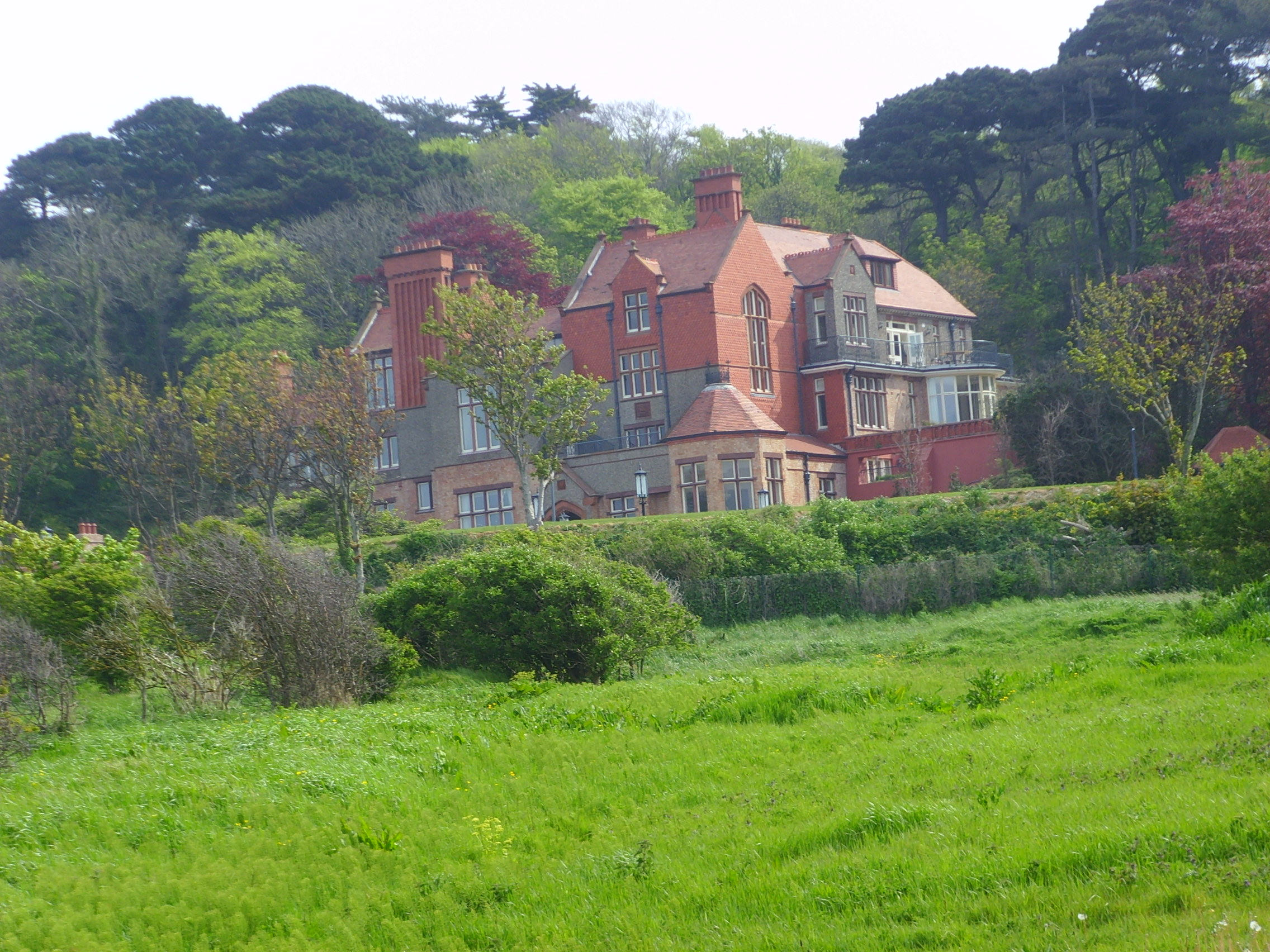 Sutton Castle, Bailey, Dublin 13 - May 2007 Sutton Castle, Dublin 13